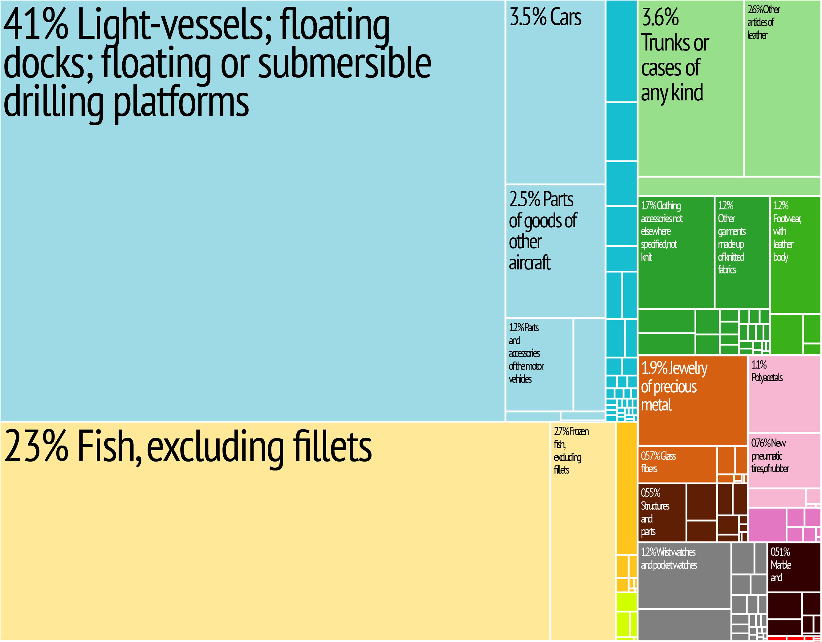 Guam Export Treemap from MIT Harvard Economic Complexity Observatory